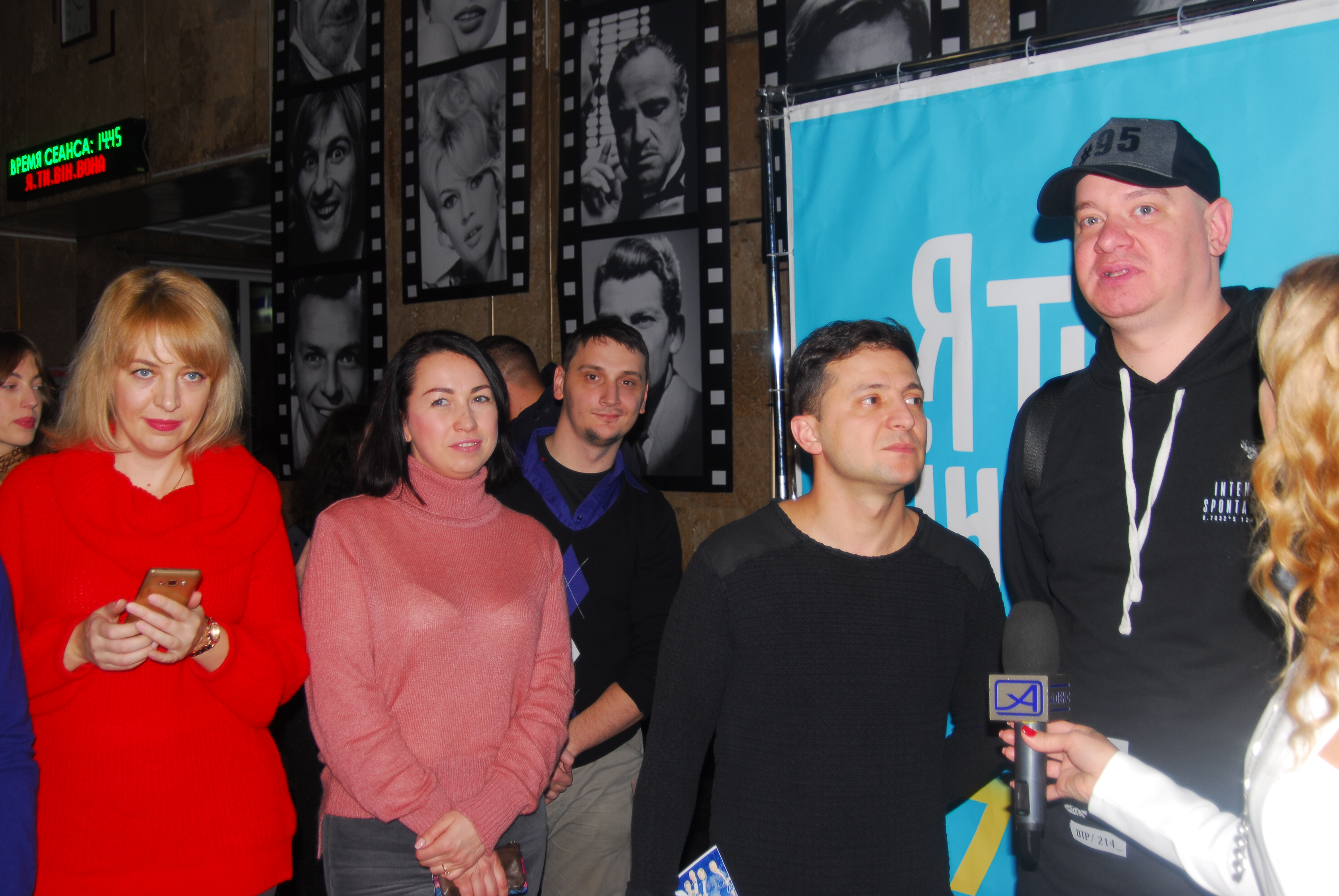 Film premiere of I, You, He, She